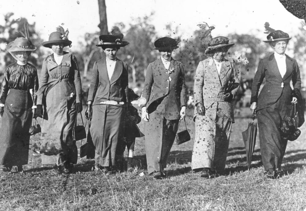 Row of women walking through a field, 1910-1920. Six women walking through a field. All are wearing similar fashions of long skirts, semi-fitted, hip-length jackets, and large hats adorned with various kinds of plumage. All except one of the women are wearing gloves. They are all carrying handbags, and the woman on the far right is walking with an umbrella.